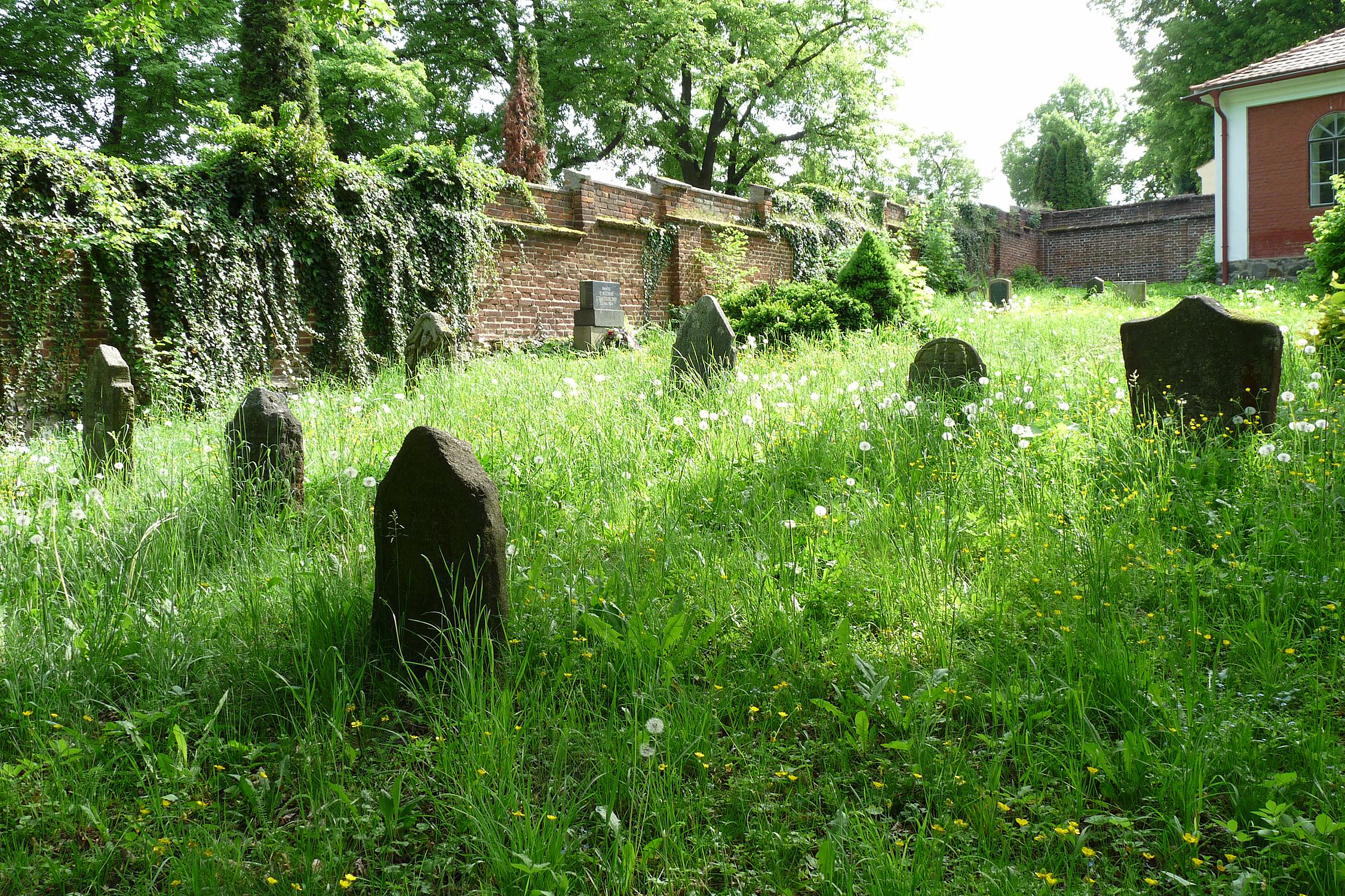 New Jewish cemetery in the town of Benešov, Central Bohemian Region, Czech Republic, old gravestones.